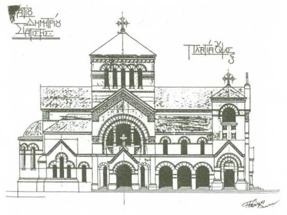 Saint Demetrius Church in Siatista Plan by architect Aristotelis Zachos